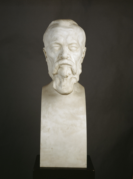 Wilhelm Wundt, Portrait bust, Max Klinger 1908, White marble